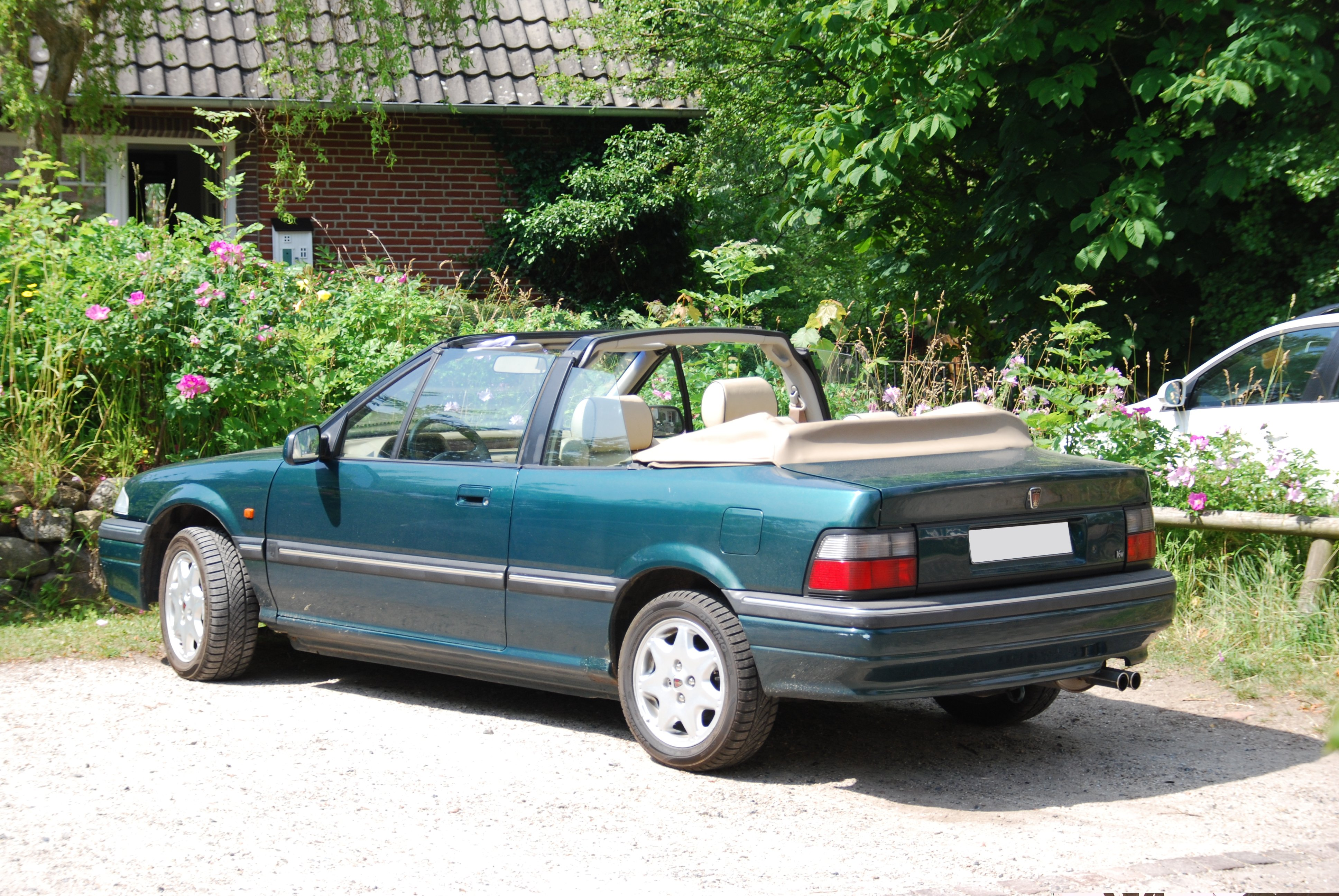 Rover 200 Mk. II Convertible